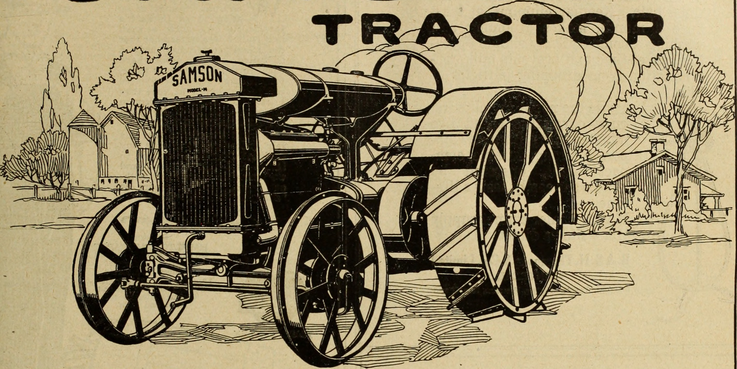 Title: Farmer's magazine (January-December 1920) Year: 1920 (1920s) Authors: Subjects: Agriculture Publisher: Toronto : Text Appearing Before Image: ' Text Appearing After Image: WHAT THE SAMSON DOES DRAW BAR —will pull a two or three bottom plow.—will pull a tandem disc harrow—will pull two 20-ft. spike-tooth harrows.—will pull two four-horse grain drills.—will pull two 7 ft. binders —will pull large road grader or do any other h^ravg-duhjdraw-bar job. BELT POWER —will handle any heavy-duhj belt-power job. —will run a 22 to 24 inch grain separator —will run a 4 to 6 hole corn sheller. —will run a heavy buzz saw —will run a heavy-dutg grinder or ensilage cutter up to 14 —will run a centri&gal water pump for irrigation purposes. —will handle stone crusher or large concrete mixer —will handle large hay balers, and, in feet will do anybelt-power job requiring steady, reliable power withinthe range of the machine from morning till night. POWER FARMING WITH THESAMSON The Samson Tractor is a product of General Motors,makers oFsuch well known cars as the McLaughlin,Cadillac, Chevrolet, Oldsmobile, G. M. C. Trucks, etc. The Samson is th